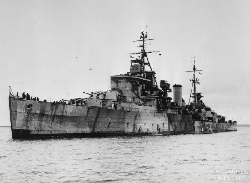 British Minotaur class light cruiser HMS SWIFTSURE at anchor.